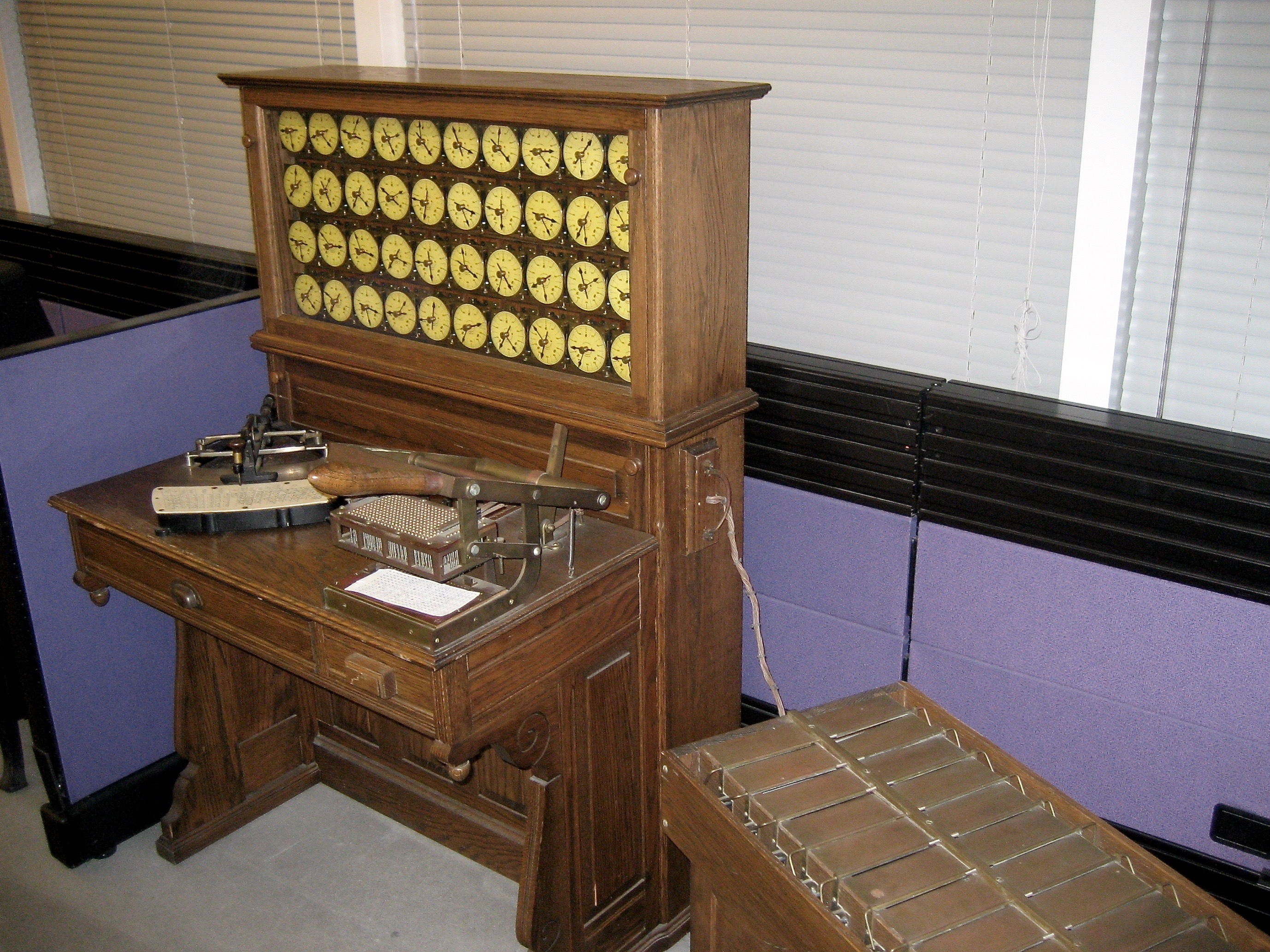 Replica of early Hollerith punched card tabulator and sorting box (right) at Computer History Museum